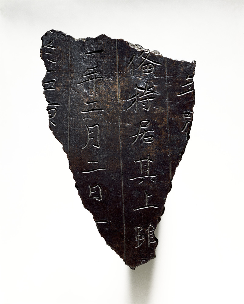 The part of the epitaph of Gyoki made in 749. A collection of Nara National Museum (Important Art Object of Japan).